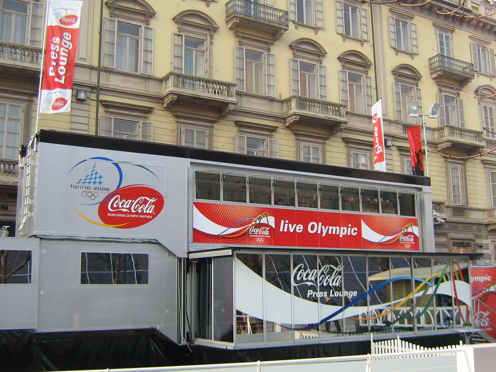 Sponsors Village Press Lounge, Turin, February 16 2006. Photo by Dzag.